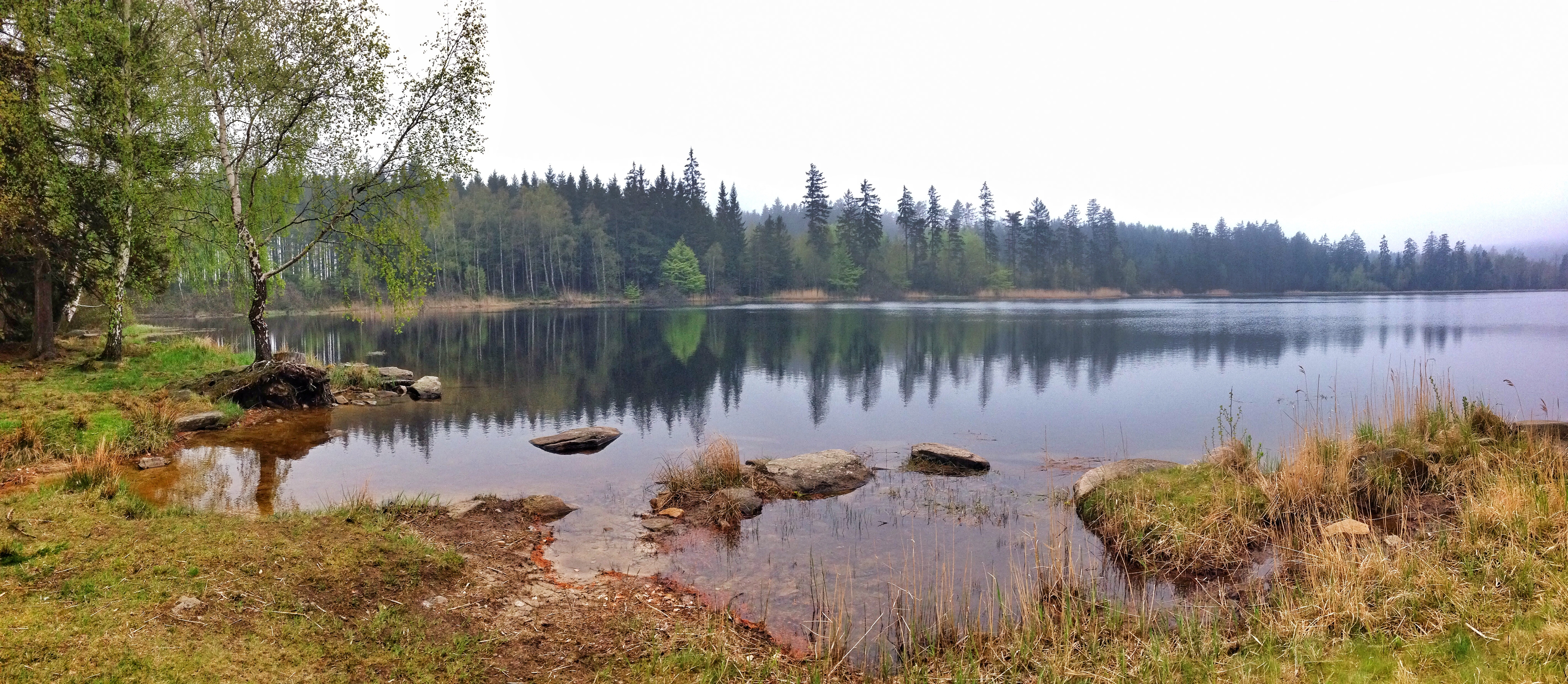 Pond Velkopařezitý near Javořice mountain.